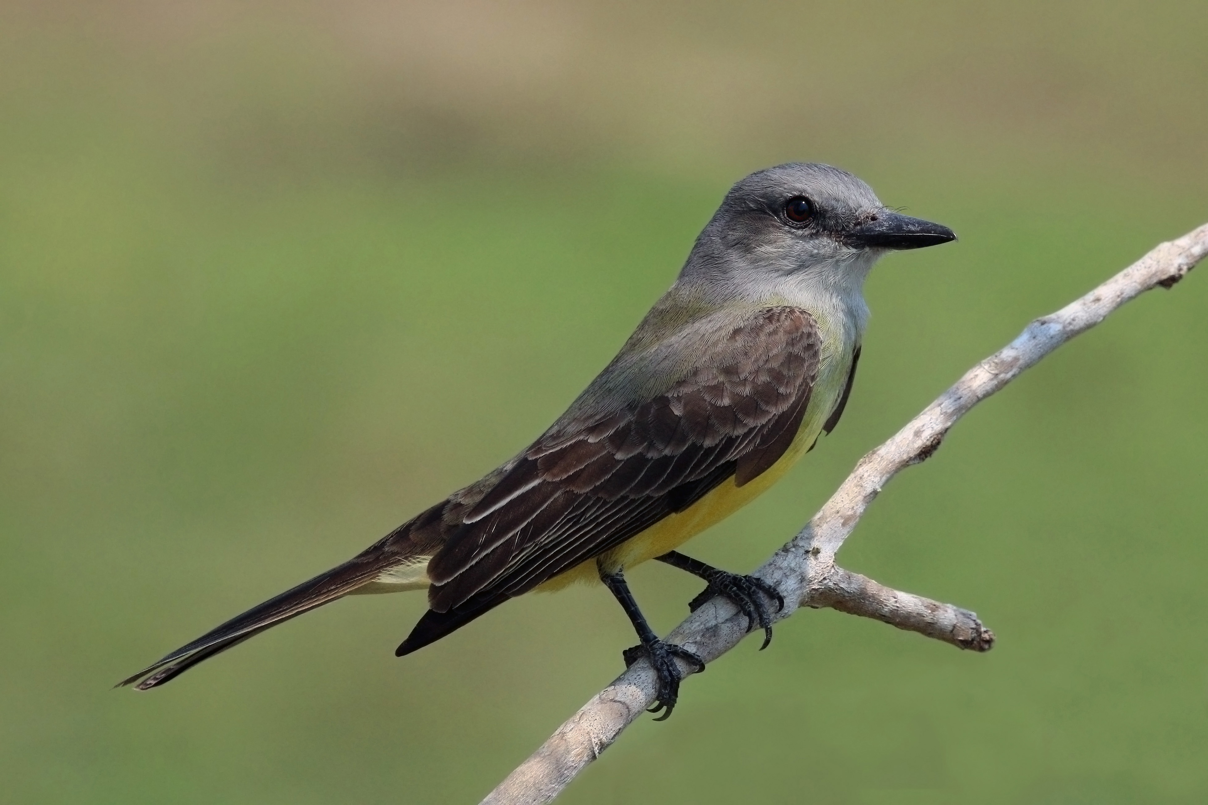 Tropical kingbird (Tyrannus melancholicus melancholicus), the Pantanal, Brazil.